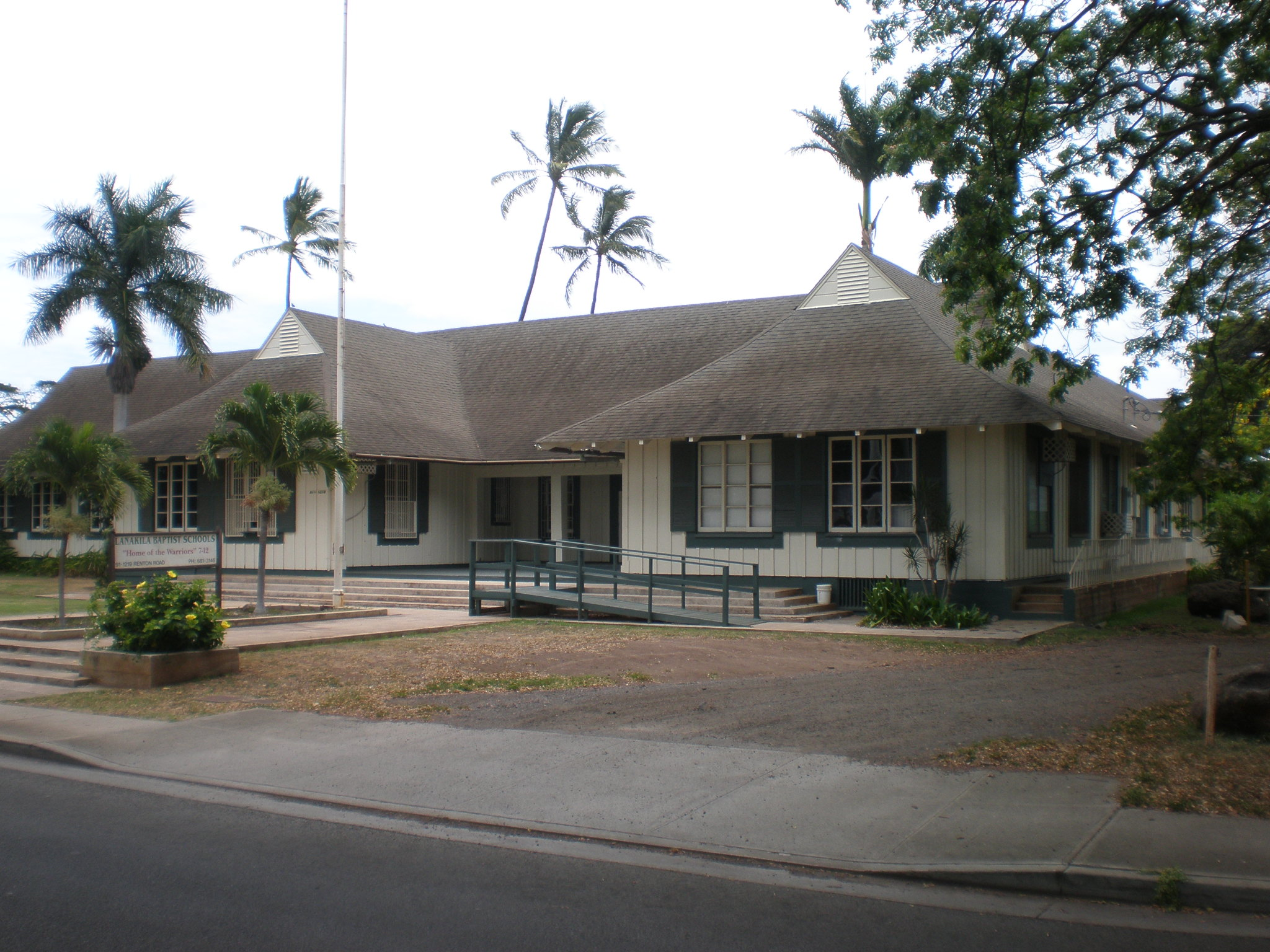 Lanakila Baptist School building, Historic ‘Ewa Plantation Village, Hawai‘i